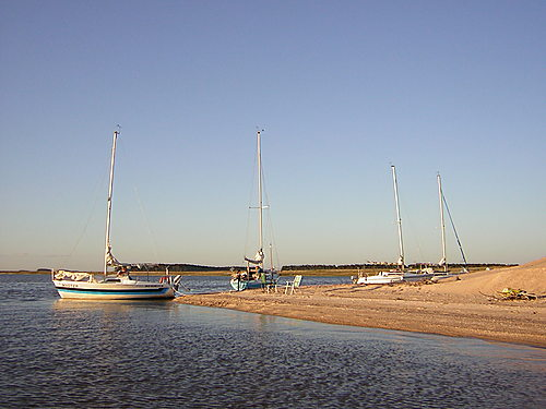 Mouth of Río Tacuarí in Lake Merín, on the border of the departments of Cerro Largo and Treinta y Tres, across from Brazil.